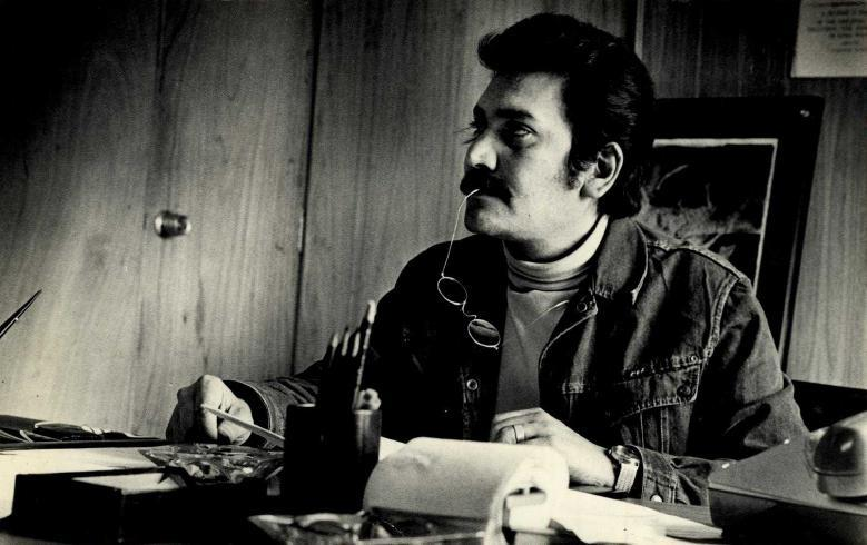 Caupolicán Ovalles working